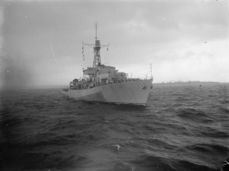 The Canadian Castle class corvette HMCS Huntsville (K499), sometime between 1943 and 1946.